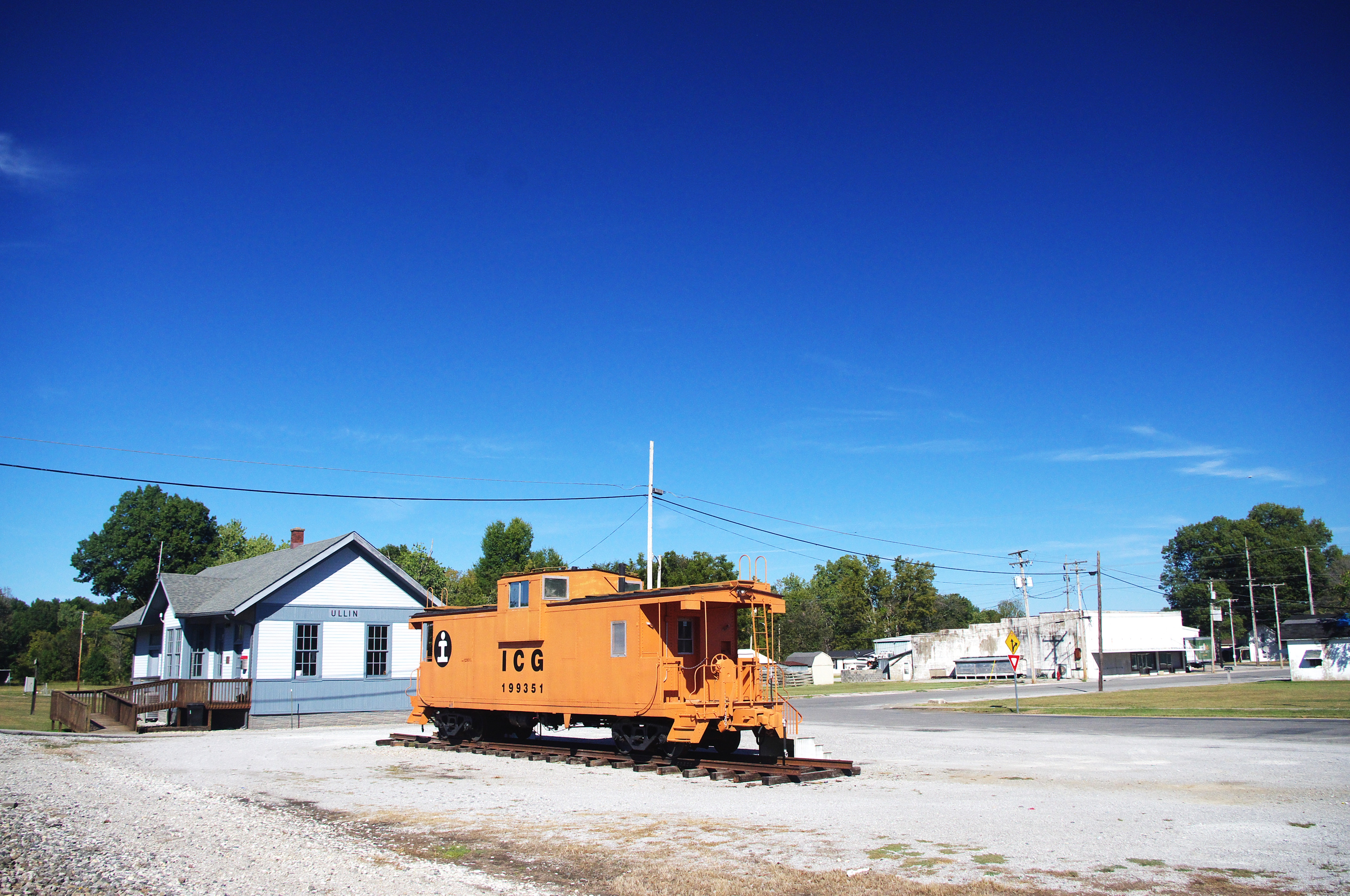 Train station and caboose in Ullin, Illinois, United States.